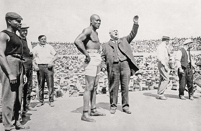 Former boxer John L. Sullivan introducing heavyweight champion of the world Jack Johnson, moments before the latter's fight against the returning James J. Jeffries. Photo taken on July 4, 1910